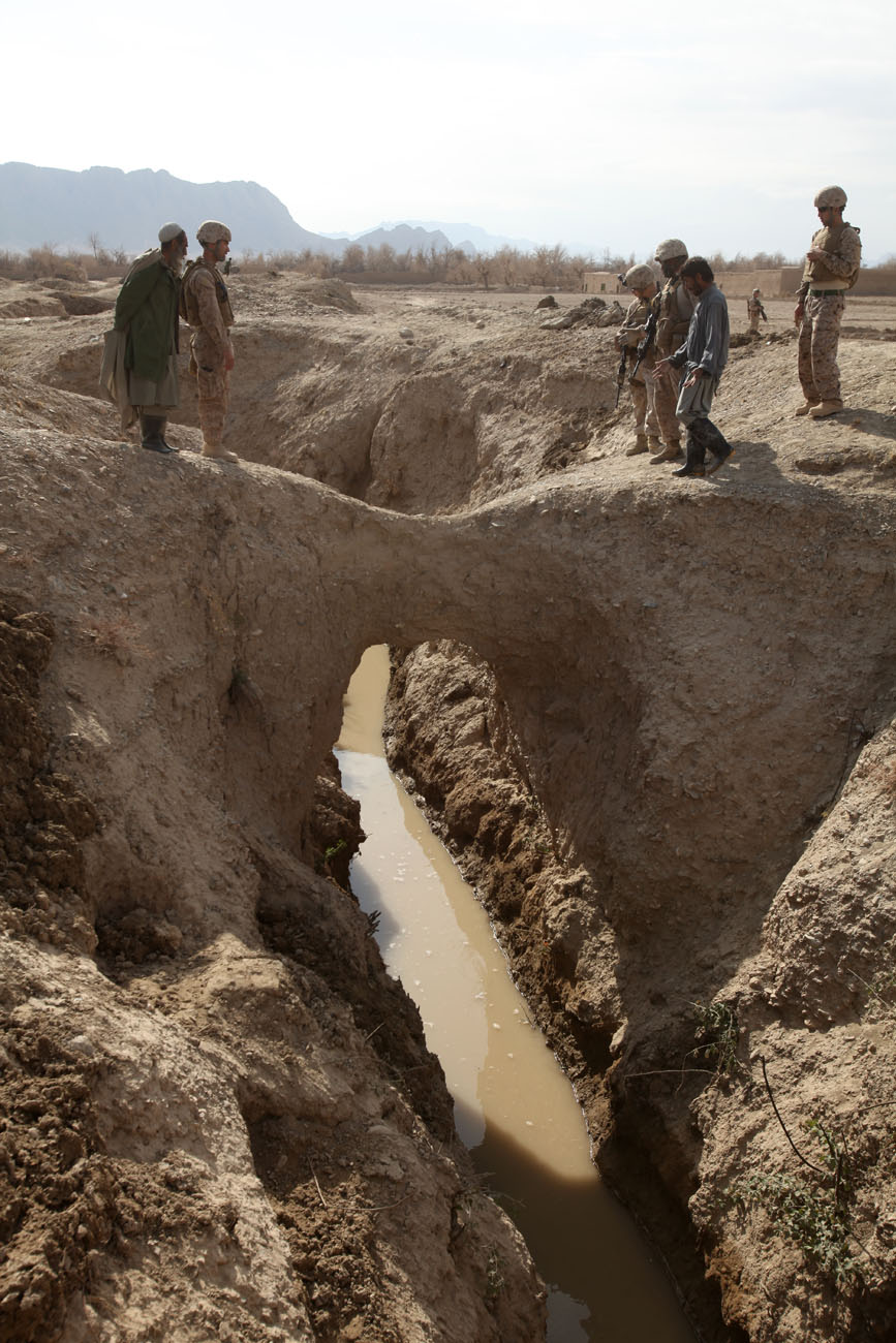 Civil affairs Marines in support of 1st Battalion, 8th Marine Regiment, Regimental Combat Team 2, walk across a narrow bridge over the kariz system leading to the villages of Now Zad, Jan. 17. The kariz systems are waterways here that are being refurbished for the villagers of Now Zad.